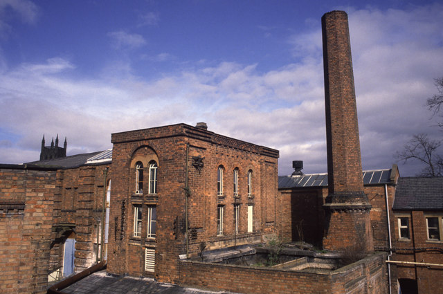 Royal Worcester. Amazing bone and stone grinding mill (for producing the raw ingredients of bone china). This was steam powered by beam engine until about the 1950s and then motor powered. It was a wonderful find but I don't know if it's still there. It was pretty much in the middle of a working pottery.